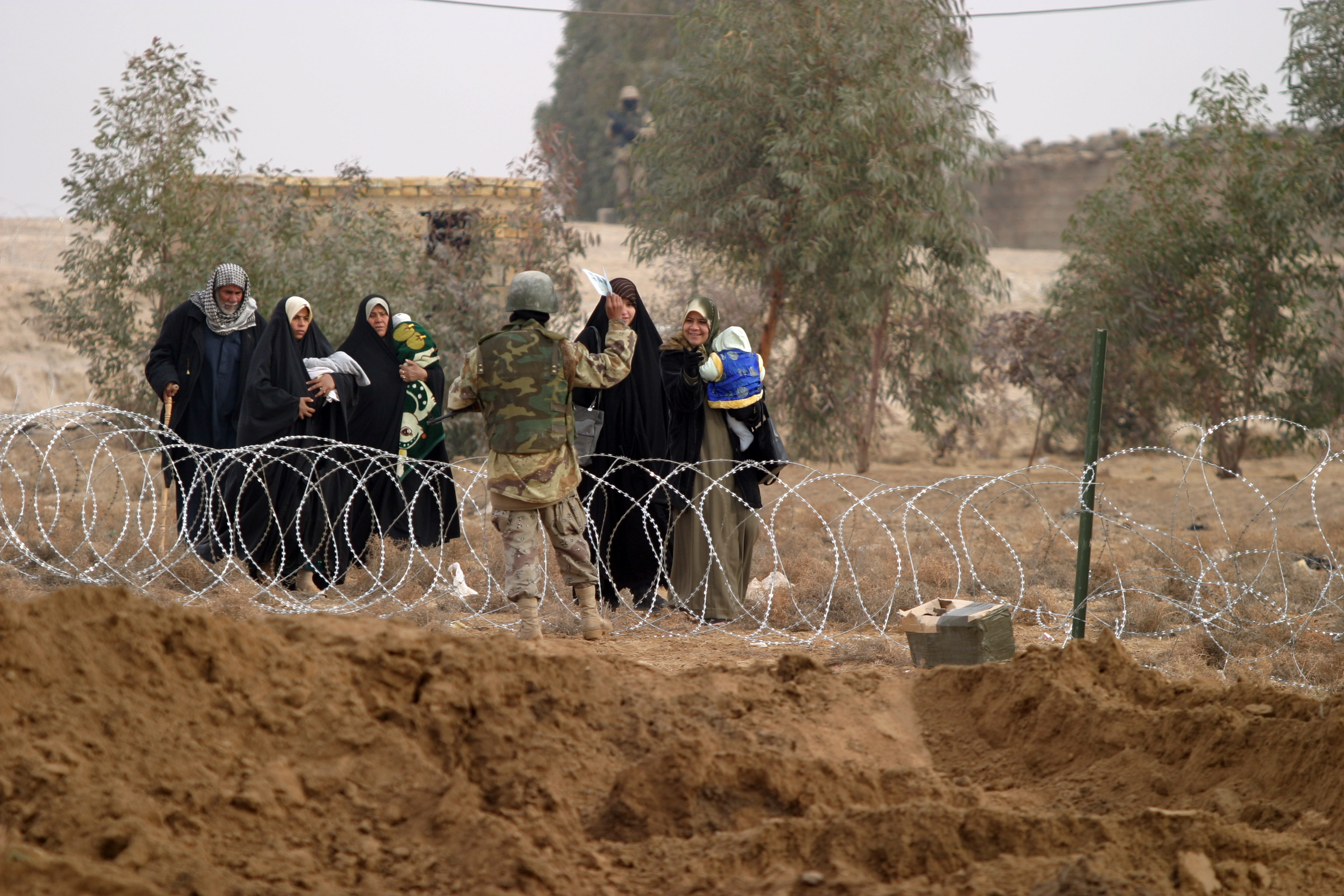 Nasarwasalam, Iraq (Jan. 30, 2005) - Iraqi citizens come out in masses to vote for the first ever "Free Elections" in Iraq. Iraqi Security Force (ISF) and Marines assigned to Kilo Company, 3rd Battalion, 8th Marines, provide security for the polling site in Nasarwasalam, Iraq. U.S. Marine Corps photo by Cpl. Trevor Gift (RELEASED)